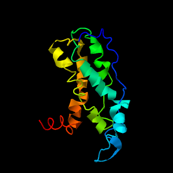 The predicted tertiary structure of the full LSMEM2 human sequence.